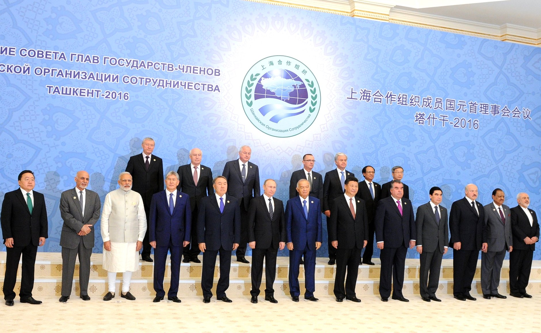 Heads of state and government of the Shanghai Cooperation Organisation member states and observer countries and heads of international organisations’ delegations.